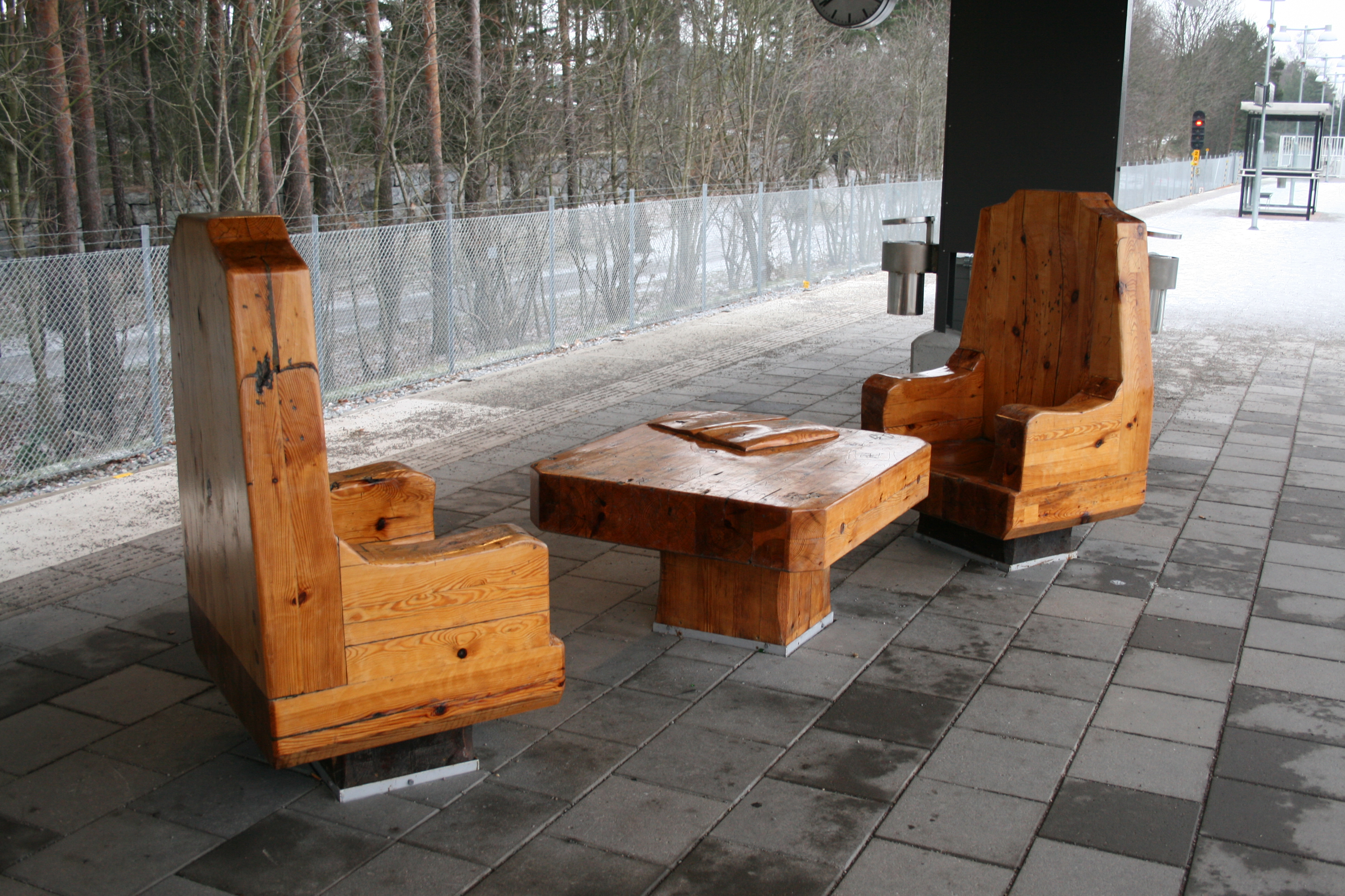 Artwork by Hans Bartos, wood, 1975, at the Stockholm metro station Skogskyrkogården